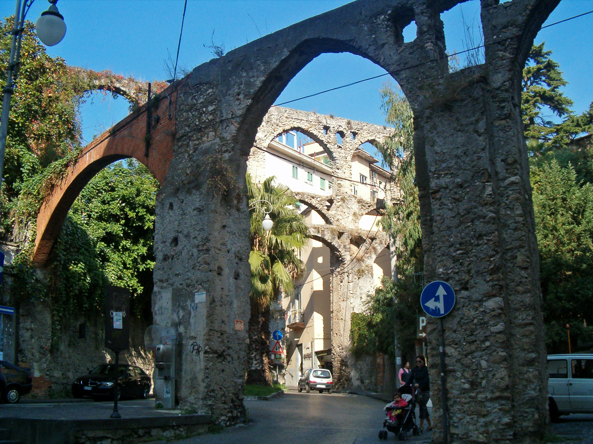 Salerno's aqueduct